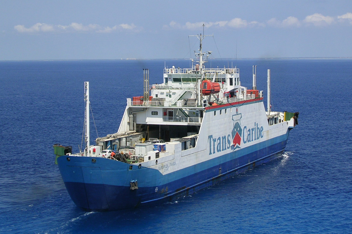 Ferry Superflex Trader (IMO: 8611520, MMSI: 345110008).These vehicle ferries sail between Cozumel and Playa del Carmen, 17 km (11 miles) away on the mainland of Mexico. I took this photo from our cruise ship at International Pier. They also serve a pier in downtown Cozumel. Collectively, the ferries may bring in most of what is consumed on Cozumel island. Passengers can take jet boats on this route. You can barely see the mainland on te horizon.